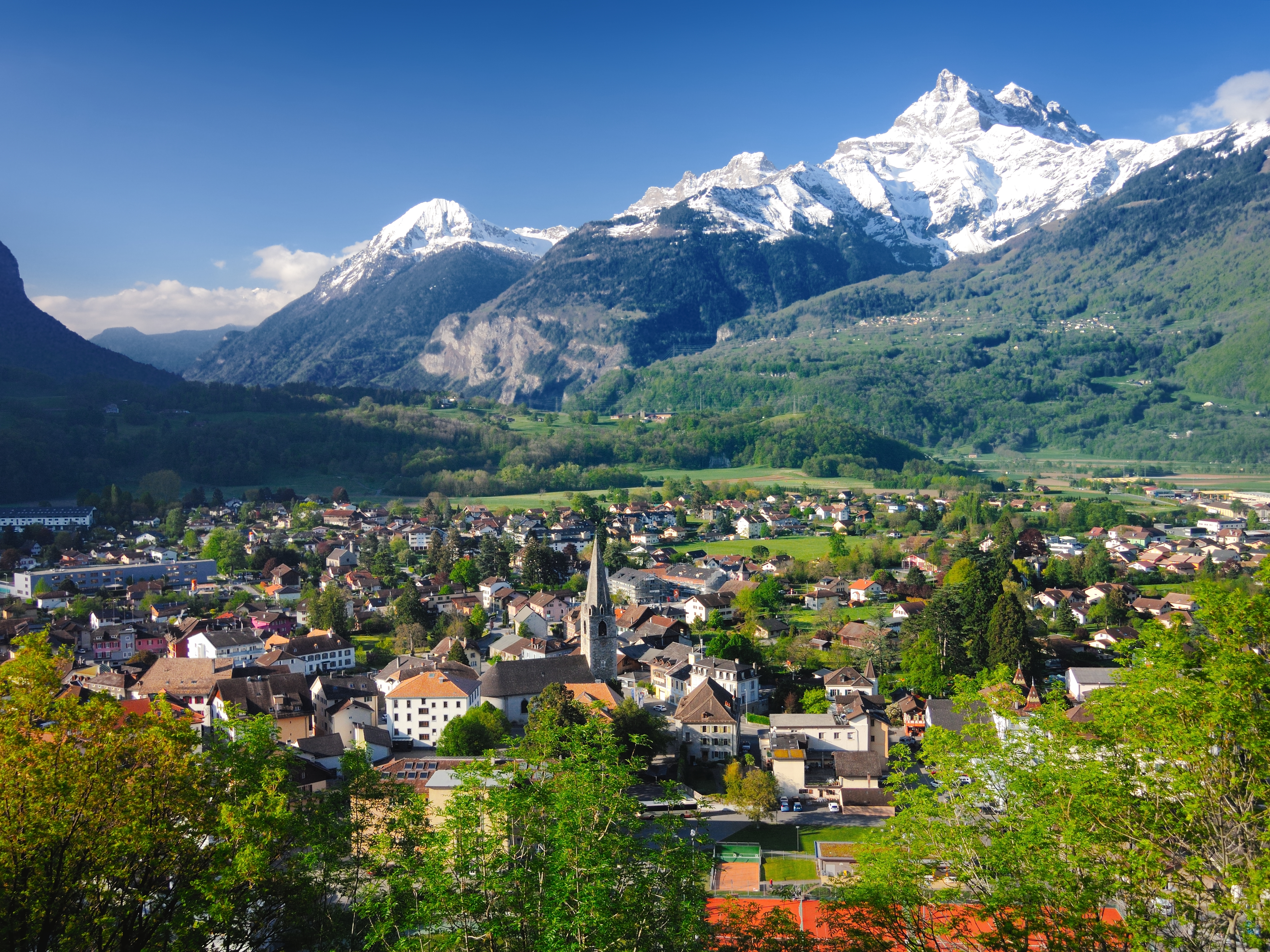 Bex with the Dents du Midi in background. View from the vineyards north of the town.